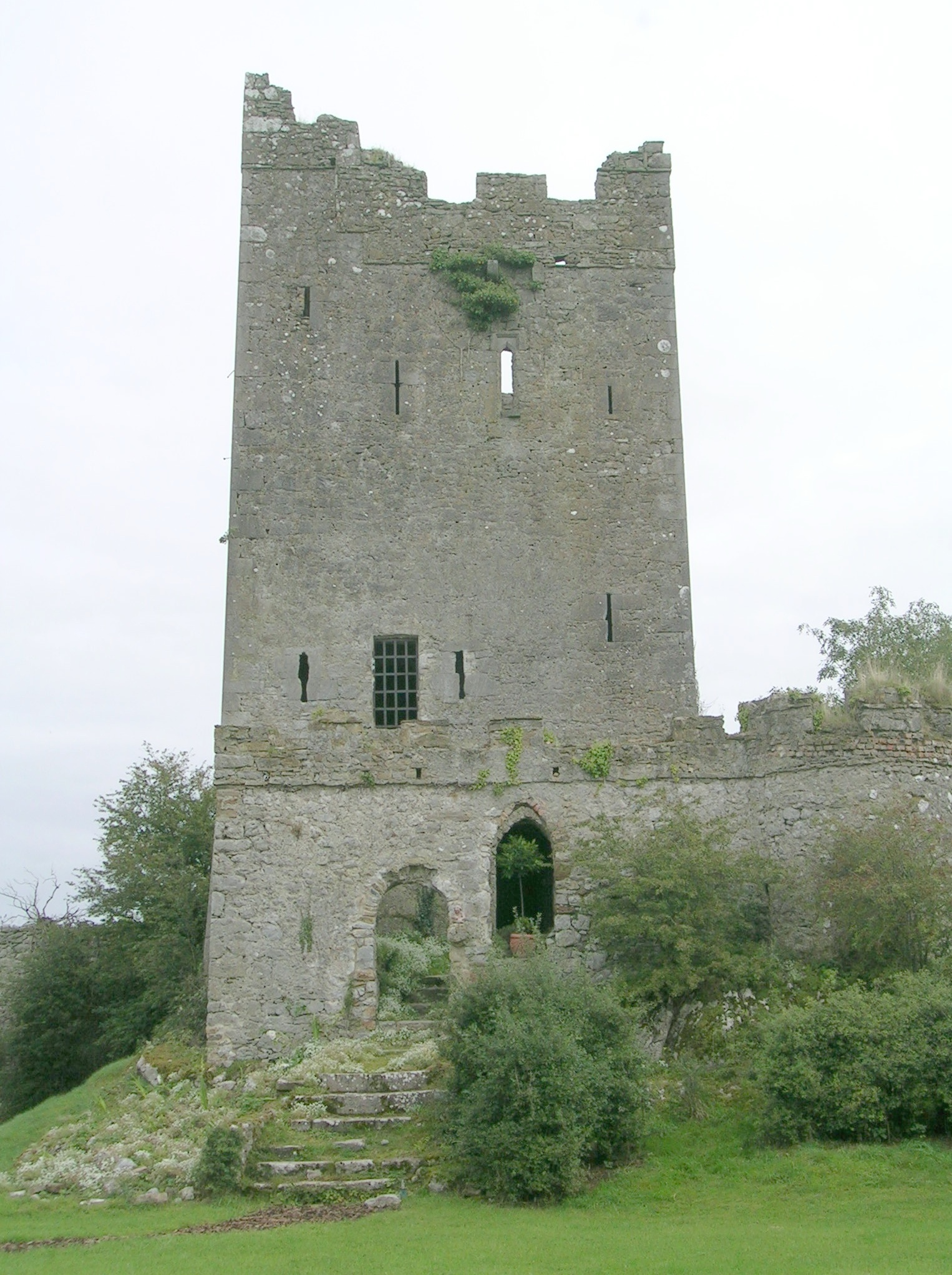 Typical Irish tower house, "Clononey Castle" in County Offaly, Ireland. View from southwest.